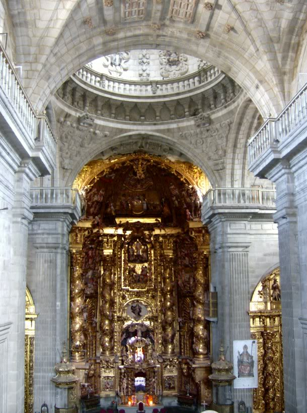 Celanova abbey altarpiece, baroque, 18th century, with the silver urn of the Saint Rudesind's relics.